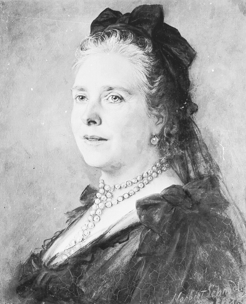 Portrait of the German Empress Victoria Adelaide Mary Louisa as widow